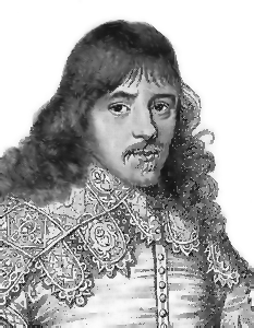 Lucius Cary, 2nd Viscount Falkland (c1610-1643)